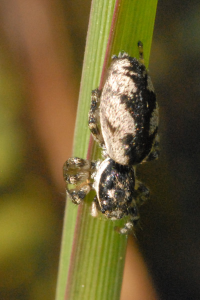 Salticus zebraneus from Commanster, Belgian High Ardennes .